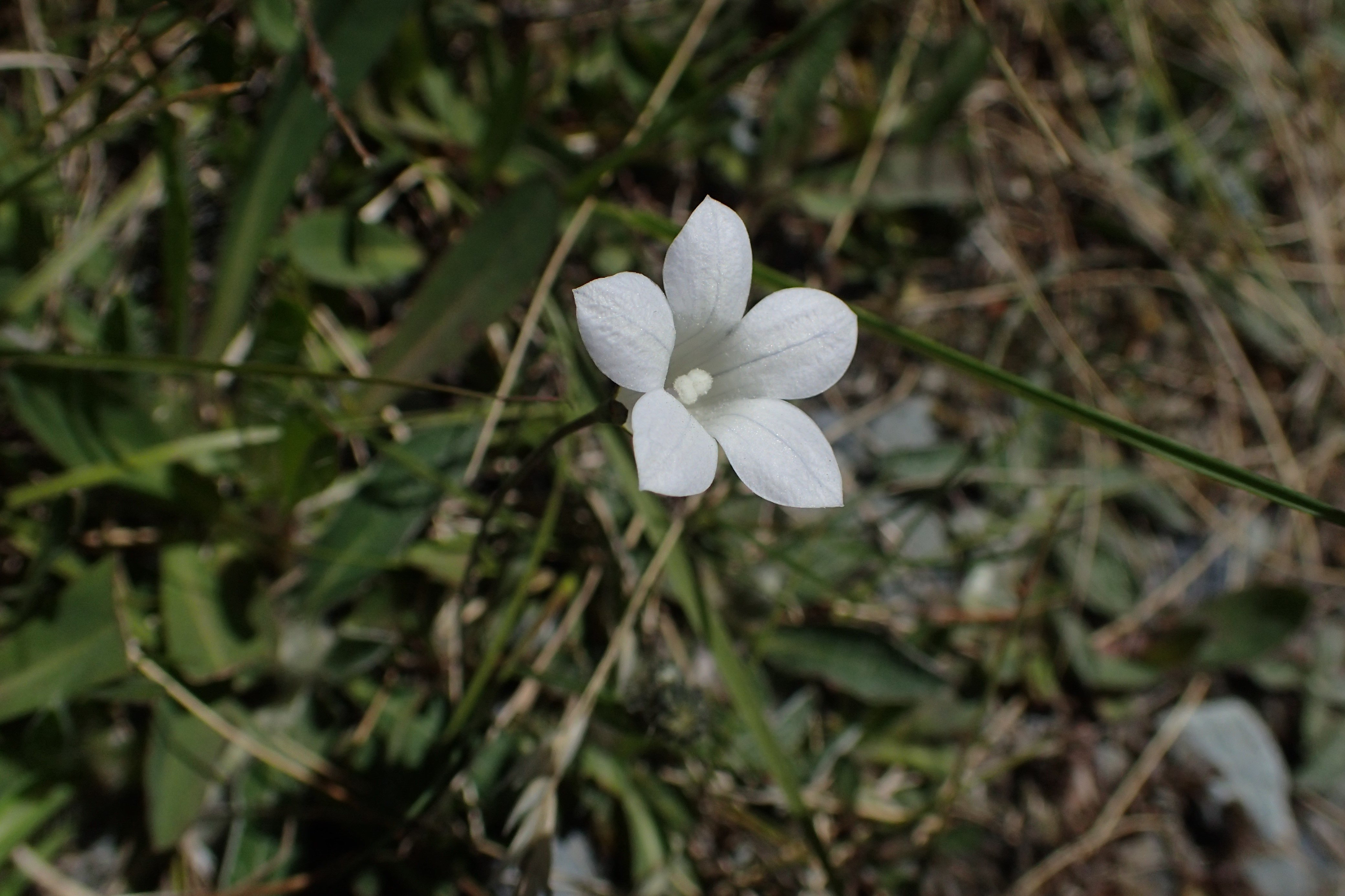 Wahlenbergia albomarginata on Kea Point Mt Cook, Canterbury (New Zealand)